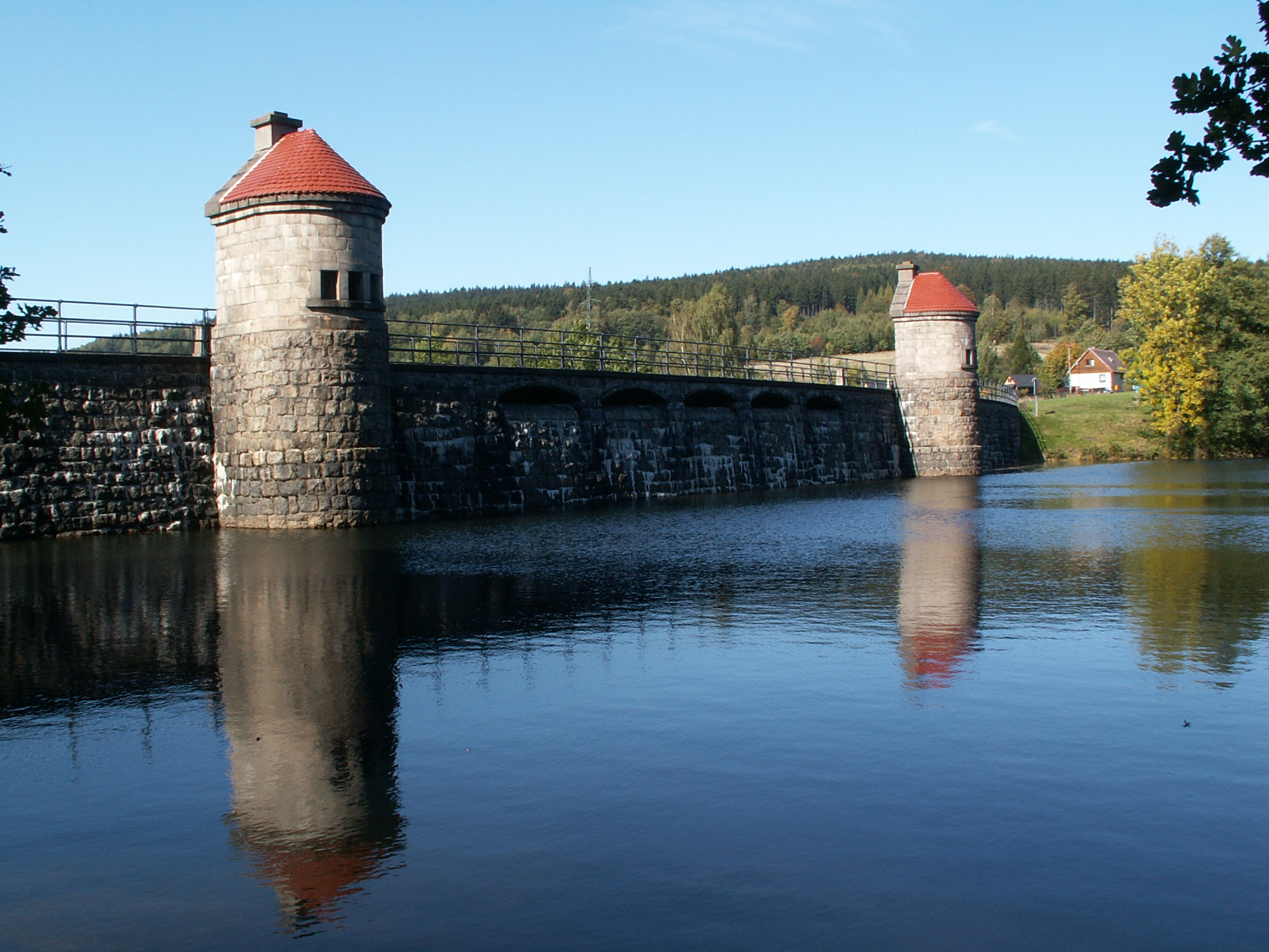 Stone pond Mlýnice in Nová Ves by Chrastava.